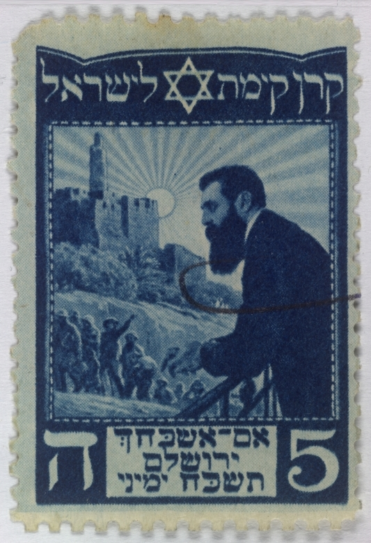 Sealing stamp of the Jewish National Fund Theodor Herzl If I forget thee, O Jerusalem, let my right hand forget her cunning. (With this quote (Psalm 137.5) Herzl ended his closing speech at the 6th Zionist Congress in Basel in 1903.